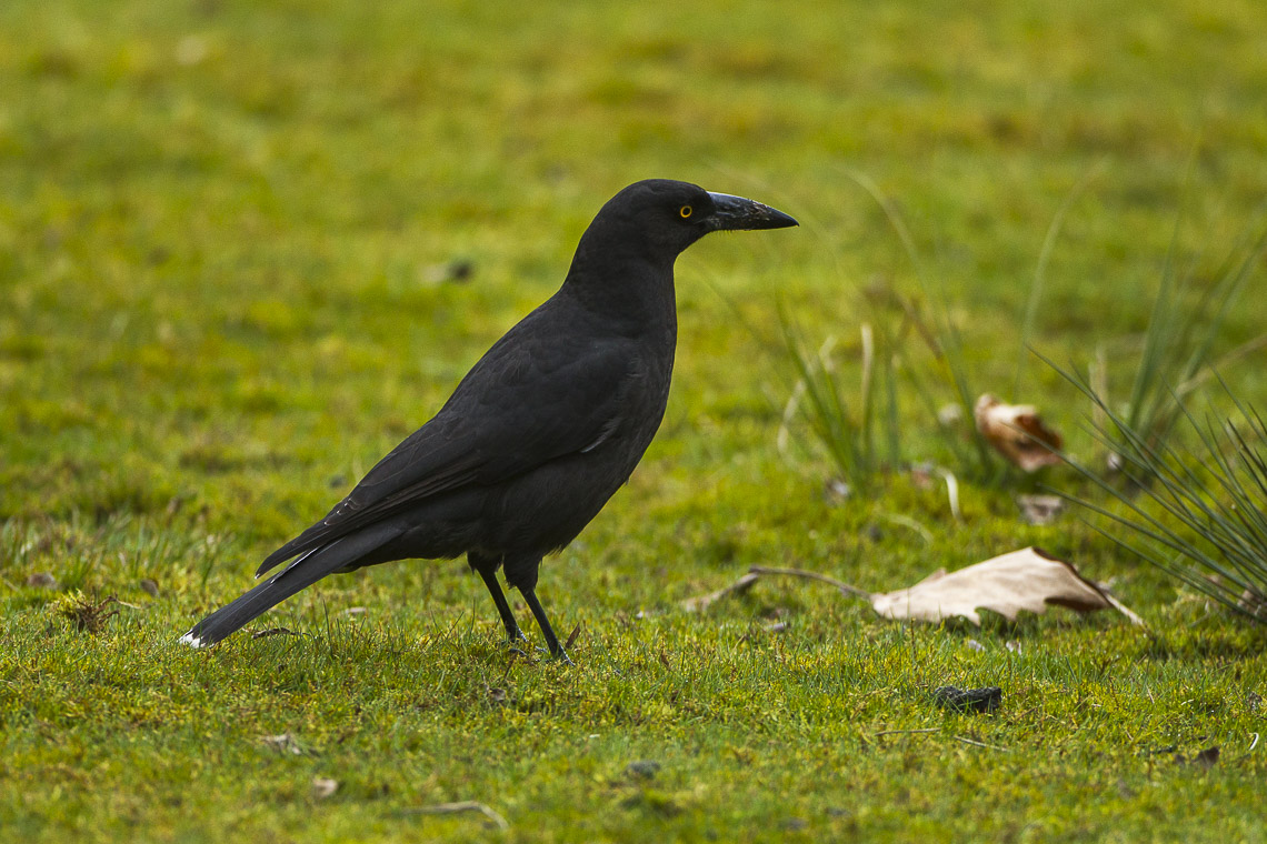 Black Currawong - Tasmania_S4E6662